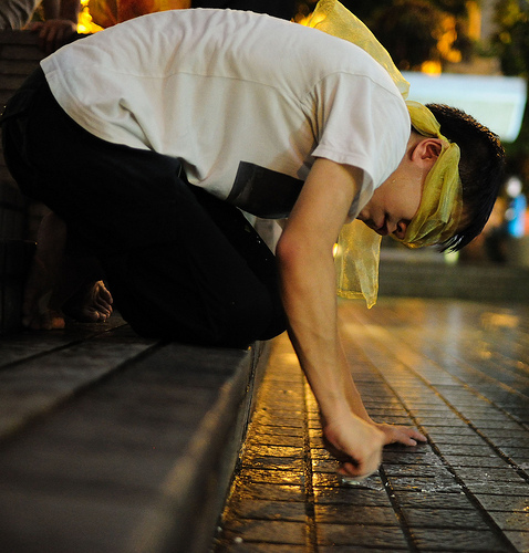 Neighbourhood Walk and Chalk Protests